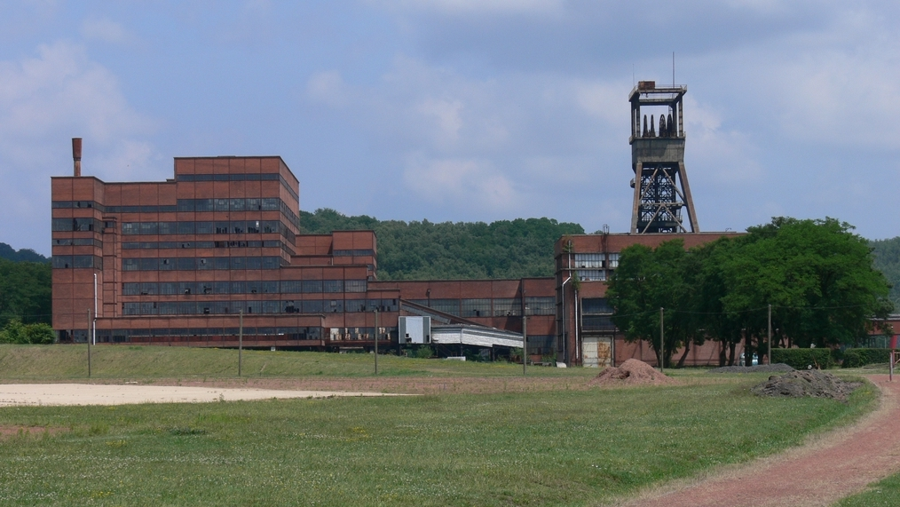 Mine Museum of du Carreau Wendel in Petite-Rosselle, Lorraine, France